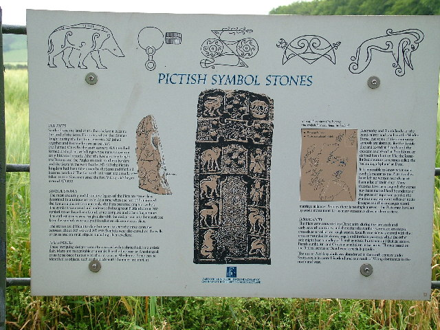 Picardy Stone Description. for access to official leaflet.